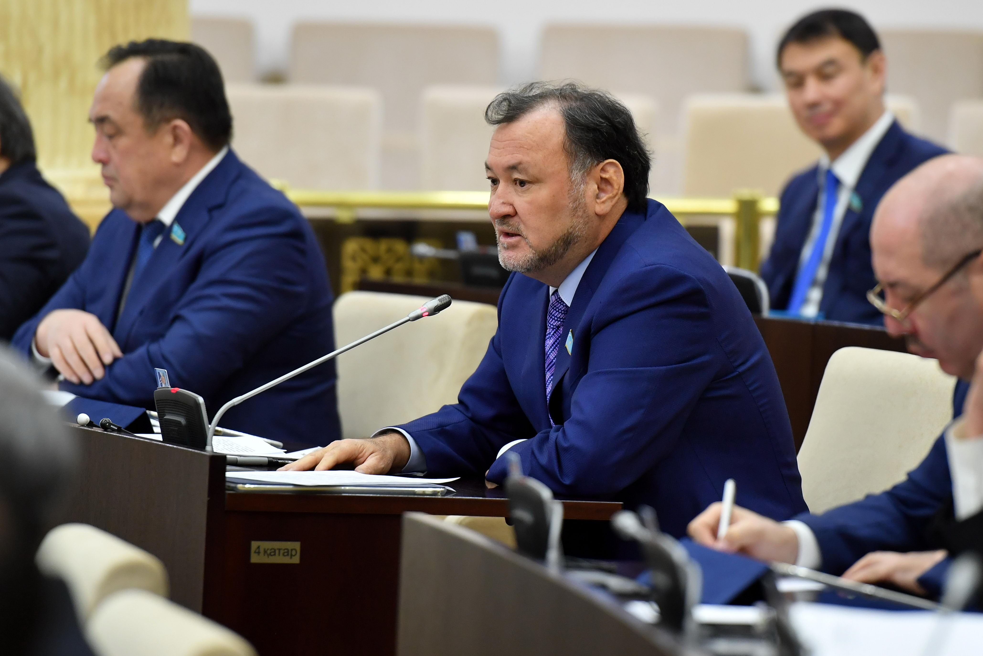 Mukhtar Kul-Mukhammed